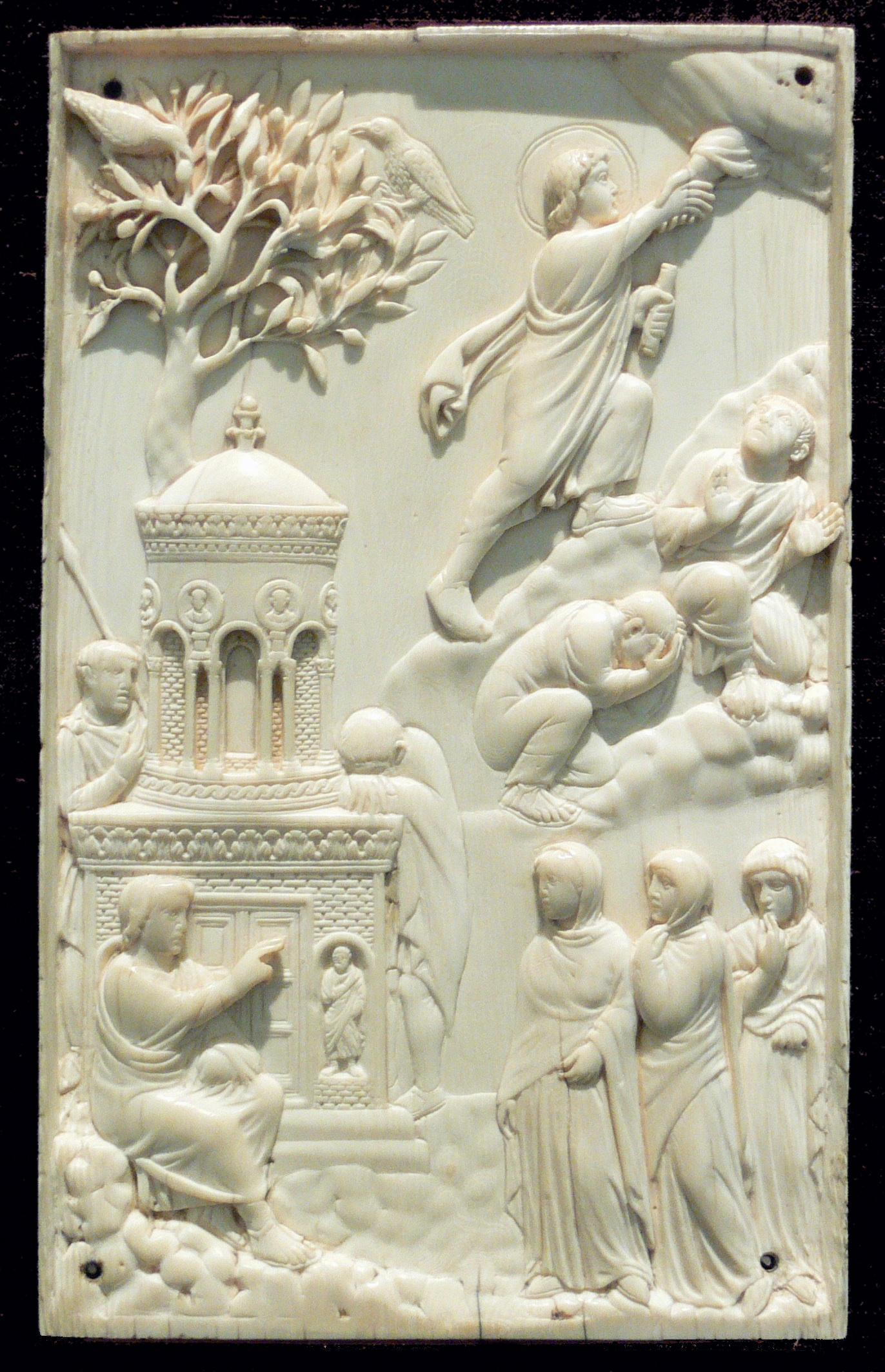 Women at the Grave of Christ and Ascension of Christ (so-called „Reidersche Tafel“); Ivory; Milan or Rome, c. 400 AD